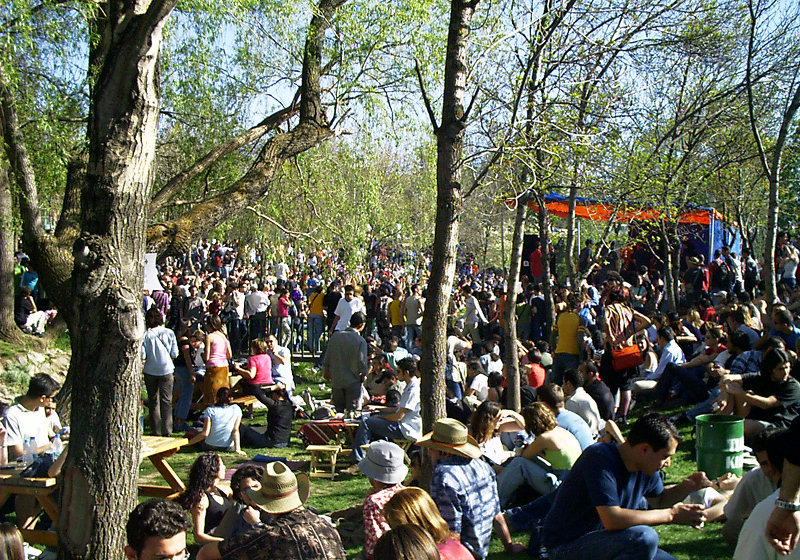 Middle East Technical University 17th Spring Festival, 2003. Photo taken by Atilim Gunes Baydin, May 7, 2003.